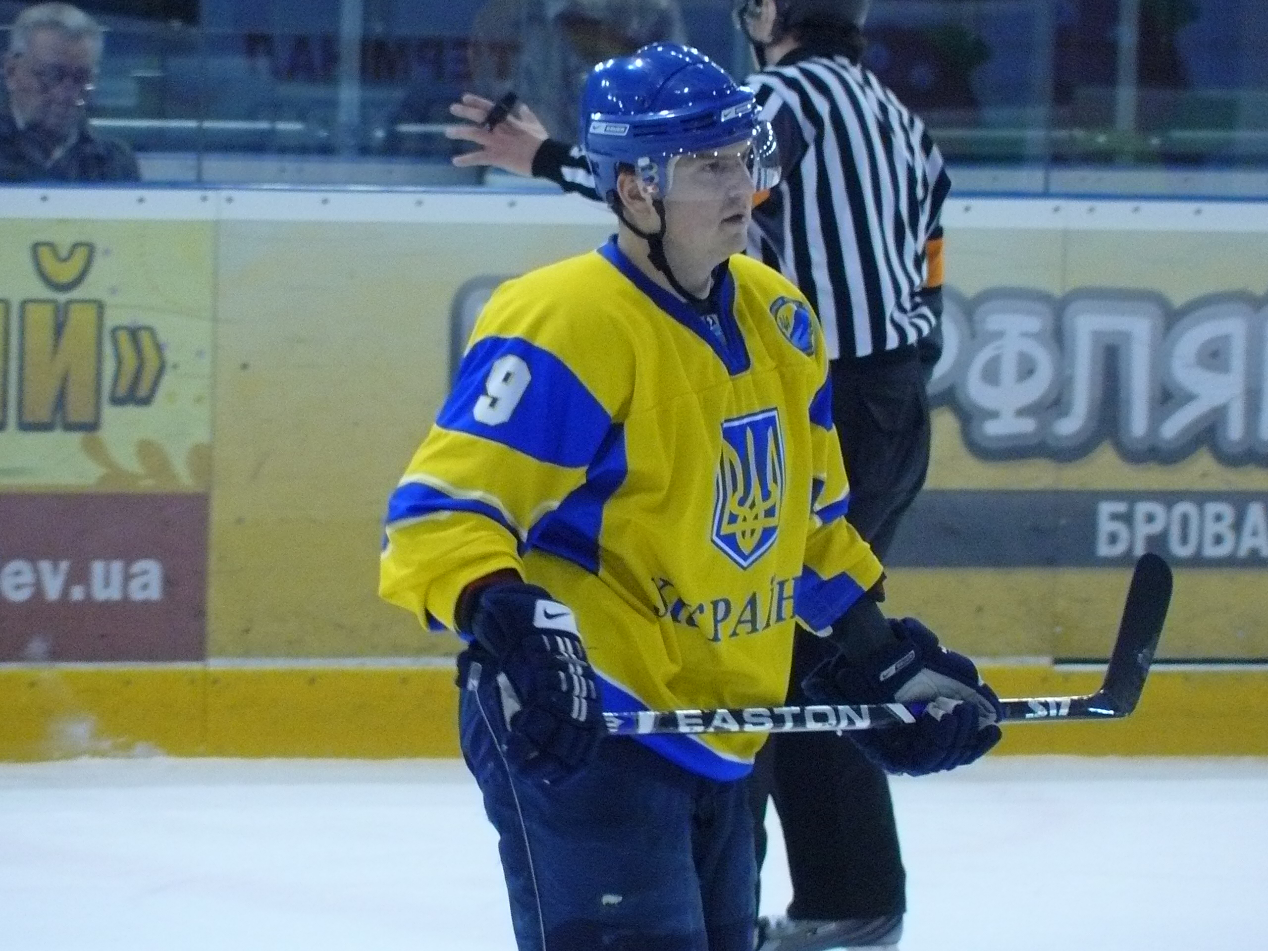 Defender Denys Isayenko #9 of the Ukraine during the friendly game against the Poland on April 10, 2010 at the Terminal Arena in Brovary, Ukraine. Ukraine won the game 2:1.